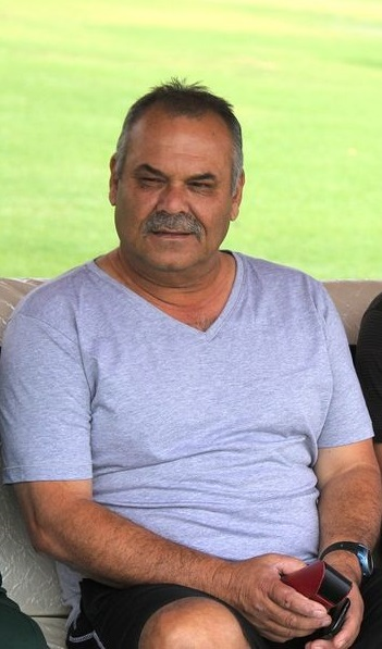 Cropped version of File:Farid with Dav.jpg